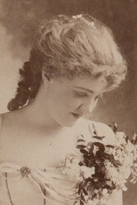 Photo of Nancy McIntosh as La Favorita in The Circus Girl, 1897.